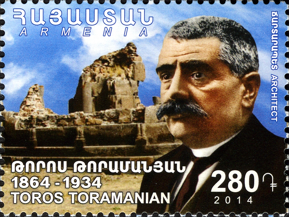 History of Armenian Architecture - 150th Anniversary of Toros Toramanyan